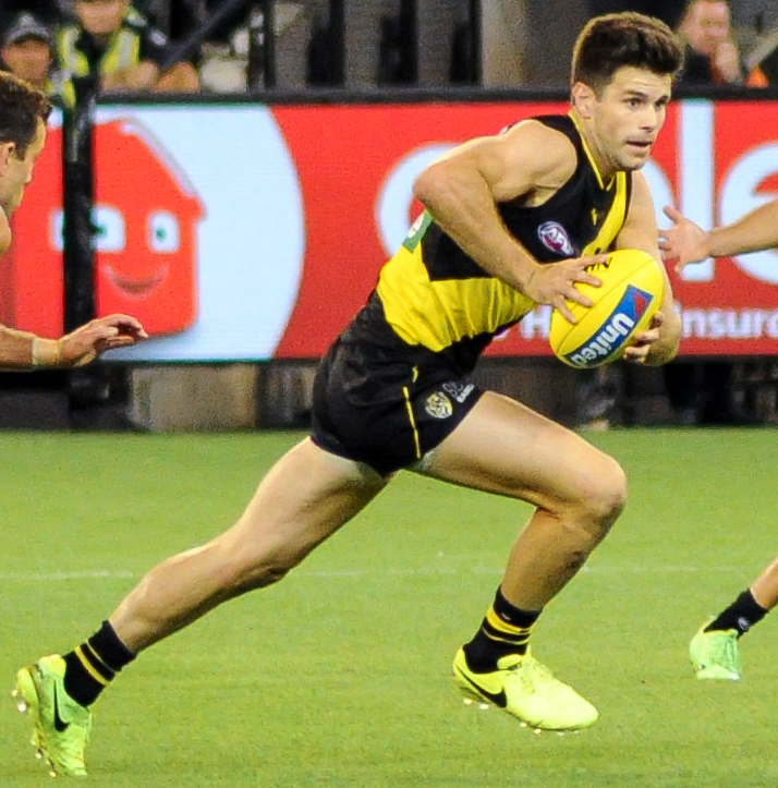 Trent Cotchin clearance during the AFL round two match between Richmond and Collingwood on 30 March 2017 at the Melbourne Cricket Ground in Melbourne, Victoria.